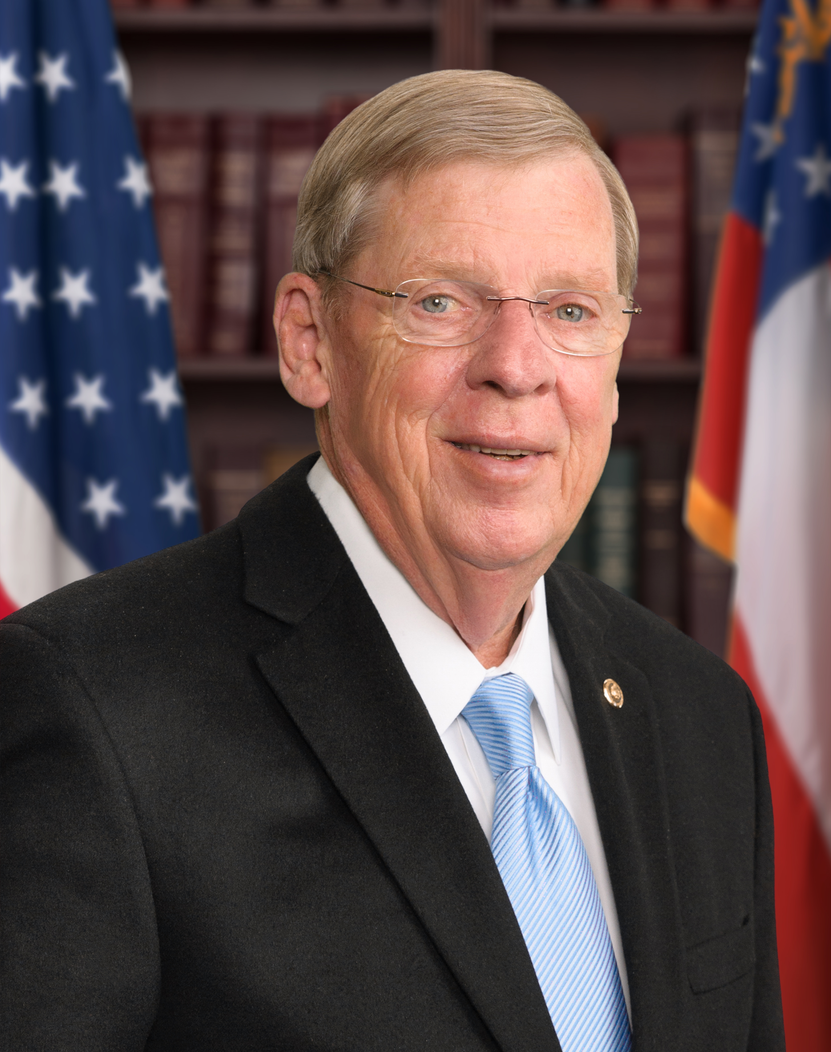 Approved GS CFFBookcase with flags